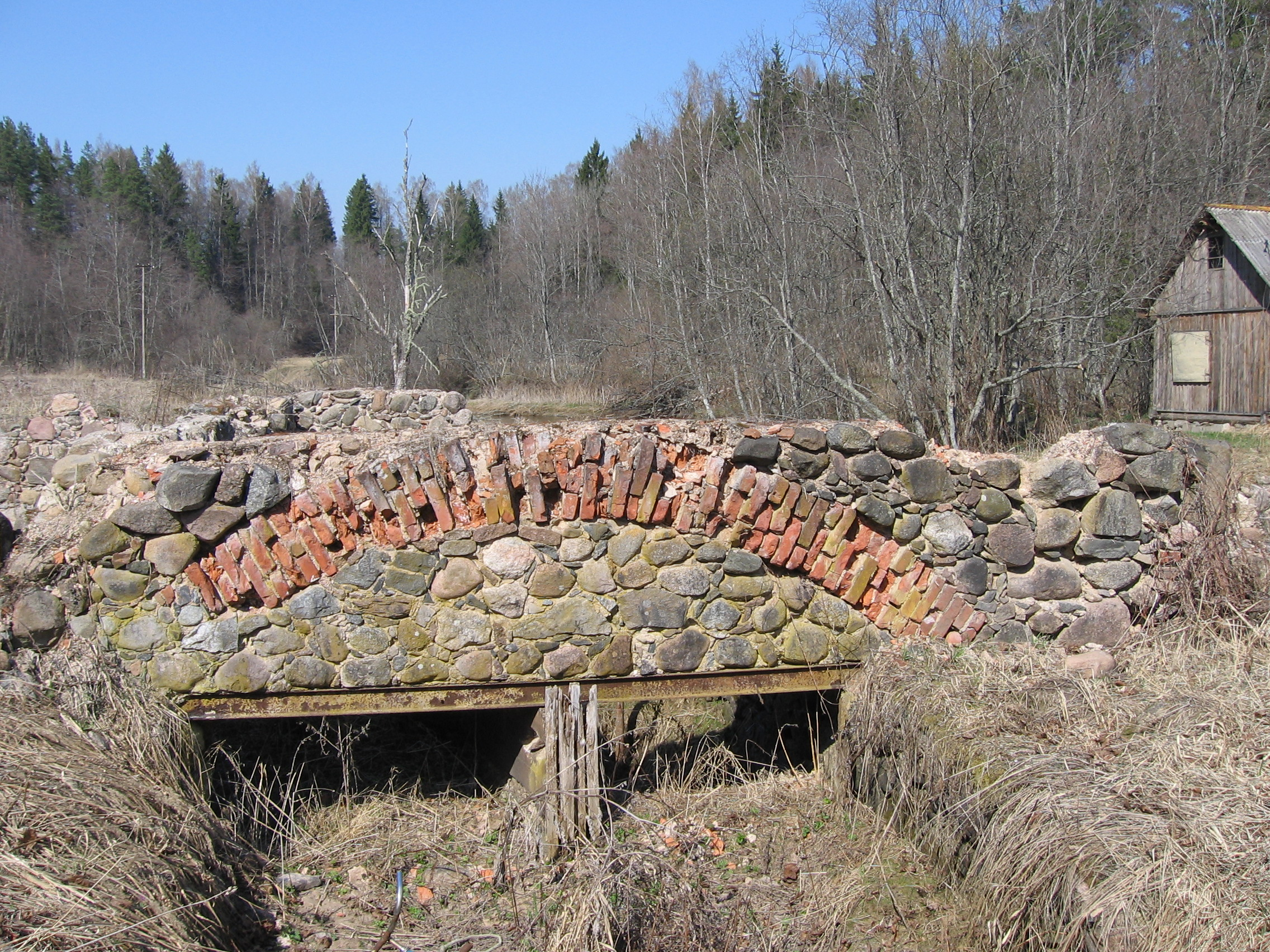 Otten watermill's water canal with bridge